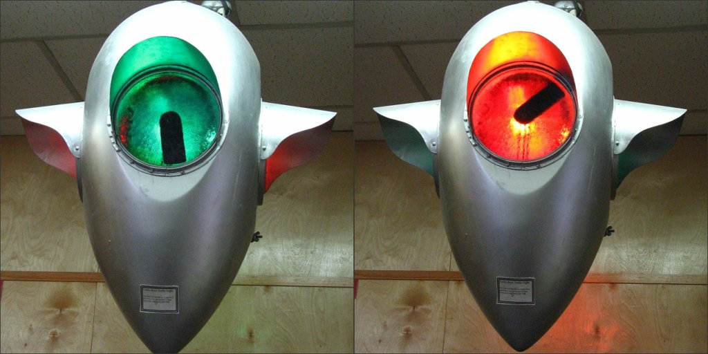 I saw the historic traffic light when my son and I visited the fascinating museum in Ashville, Ohio. For more that 50 years it controlled traffic at the town's main intersection. About 1981 it was replaced by a standard light to meet state regulations. I remember driving through Ashville just to see the light back in the fifties. Watching the light work at the museum, it reminded me of a weather radar screen. The green light pictured indicates it's about to turn red when the arm reaches the bottom.